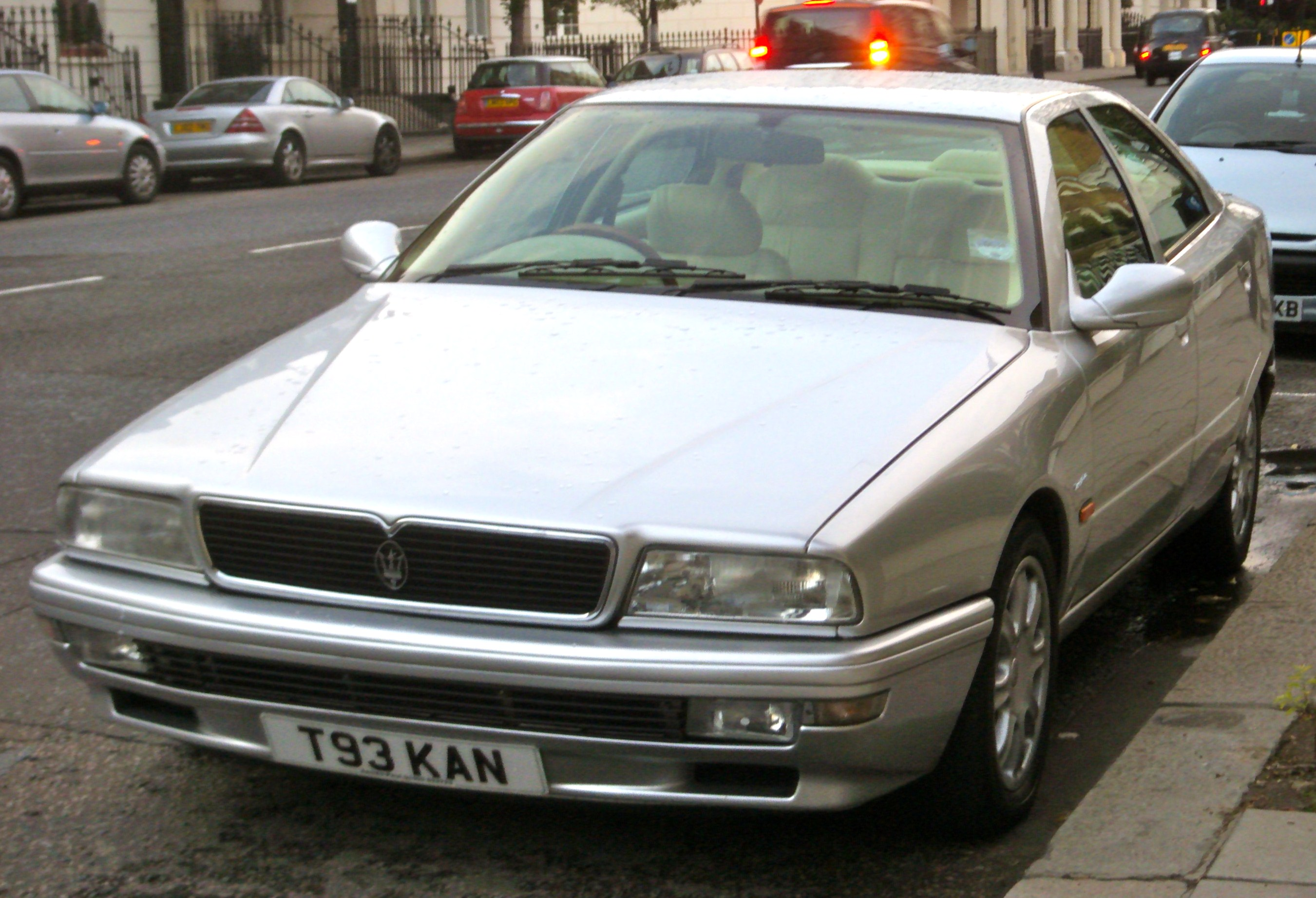 Maserati Quattroporte IV